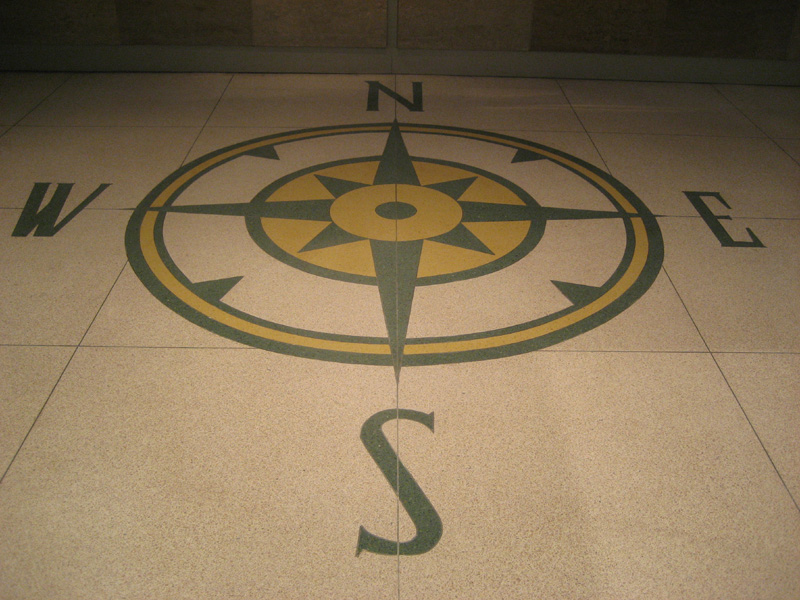 Section of the famous terrazzo floor that was located in the lobby of the old Greater Pittsburgh International Airport. It is one of the few sections of the original terminal to be preserved. The FAA mandated these few artifacts be preserved in order for it to give its OK to the demolition of the original terminal